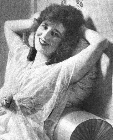 Mabel Withee, from a 1919 publication. A smiling young white woman in a soft gown, reclining on two large cushions, arms behind her head.